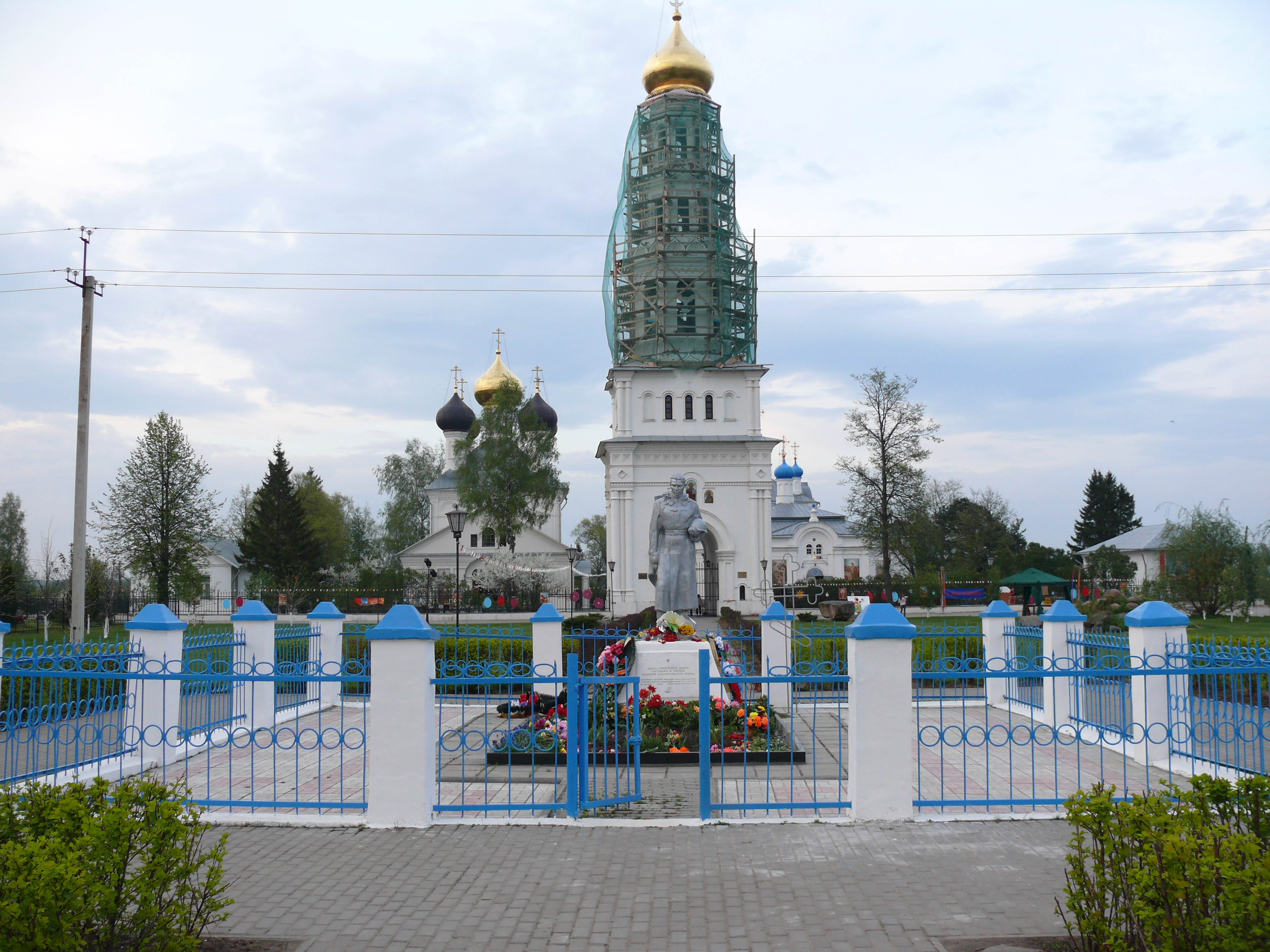 Churches and military mass grave in Zavidovo, Tverskaya oblast